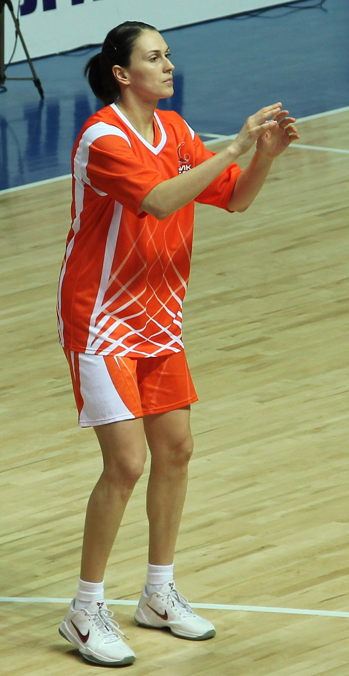 Russia, Vologda, Svetlana Abrosimova in game «Vologda-Chevakata» vs «UMMC» (Yekaterinburg)